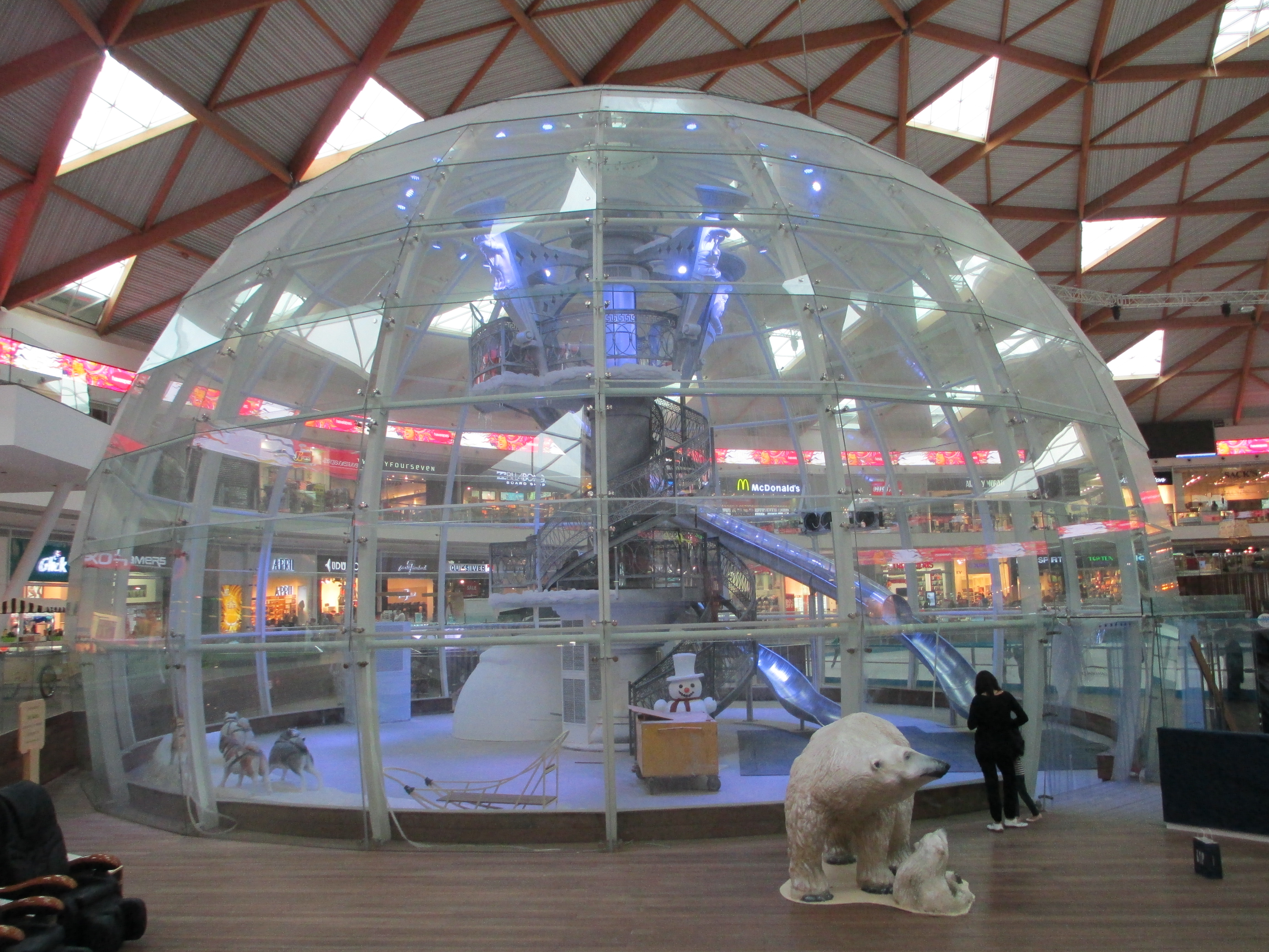 Ice park mall in Eilat